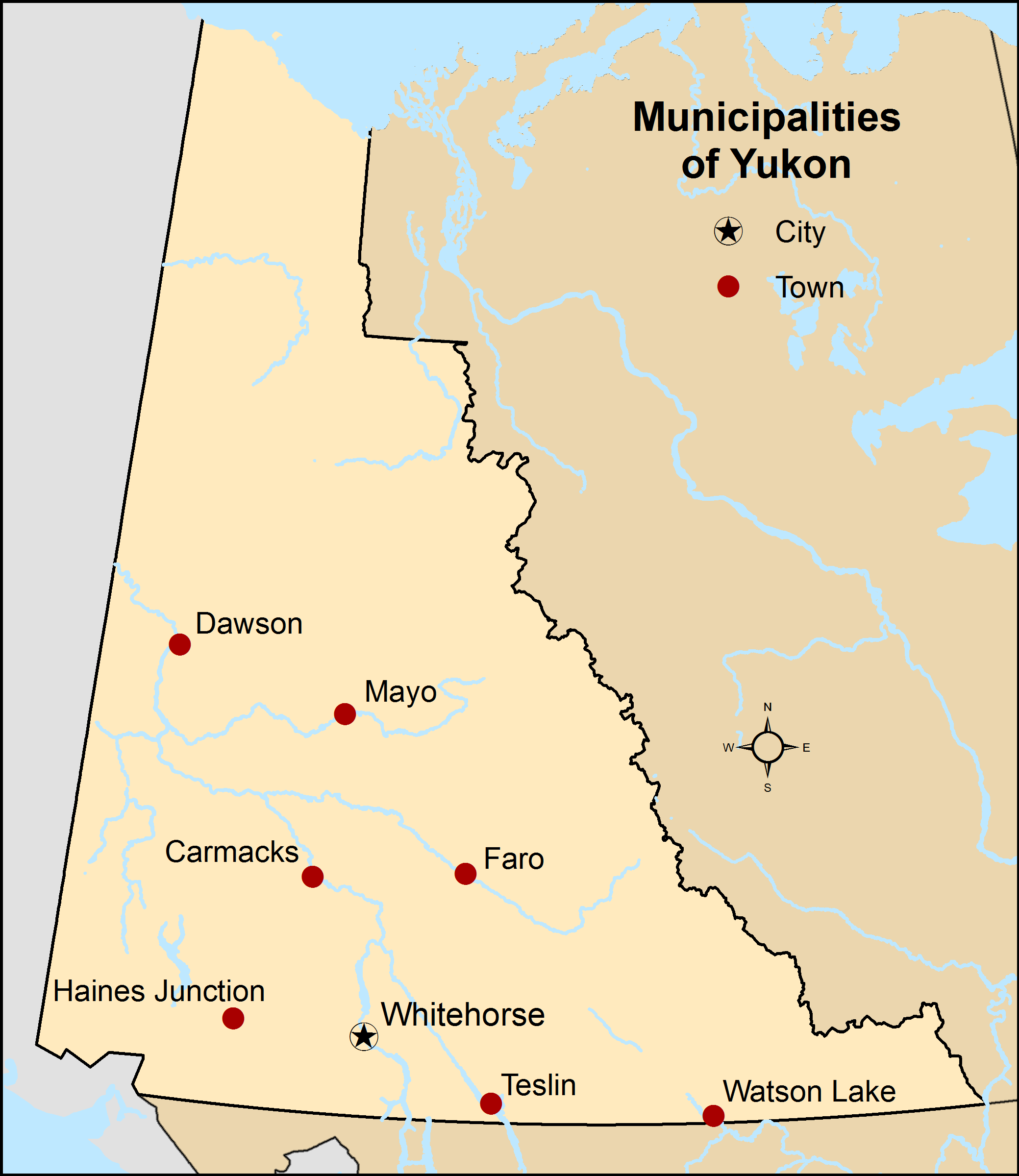 Municipalities of Yukon as of 2013